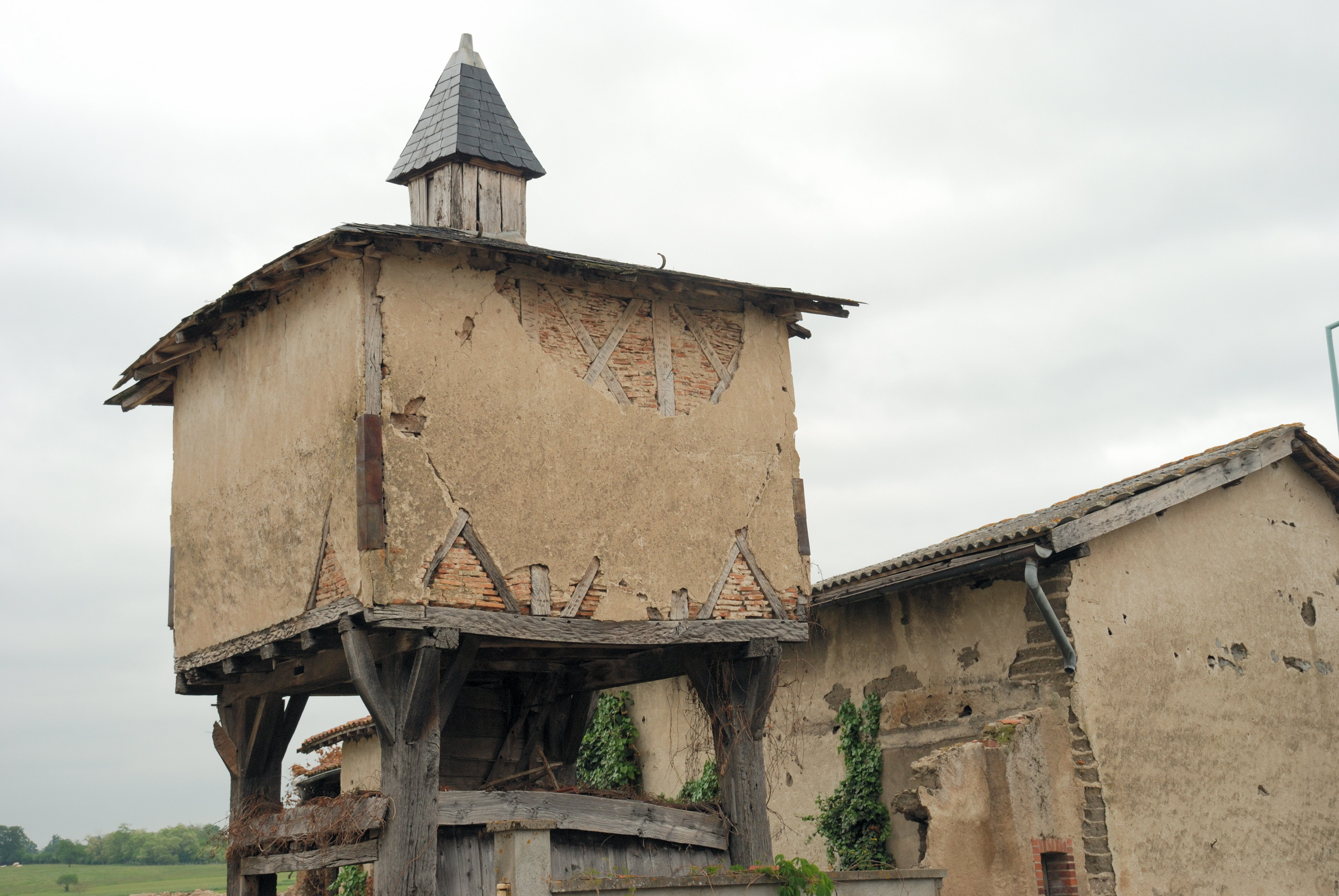 Dovecote (Culhat, Puy-de-Dôme, France).